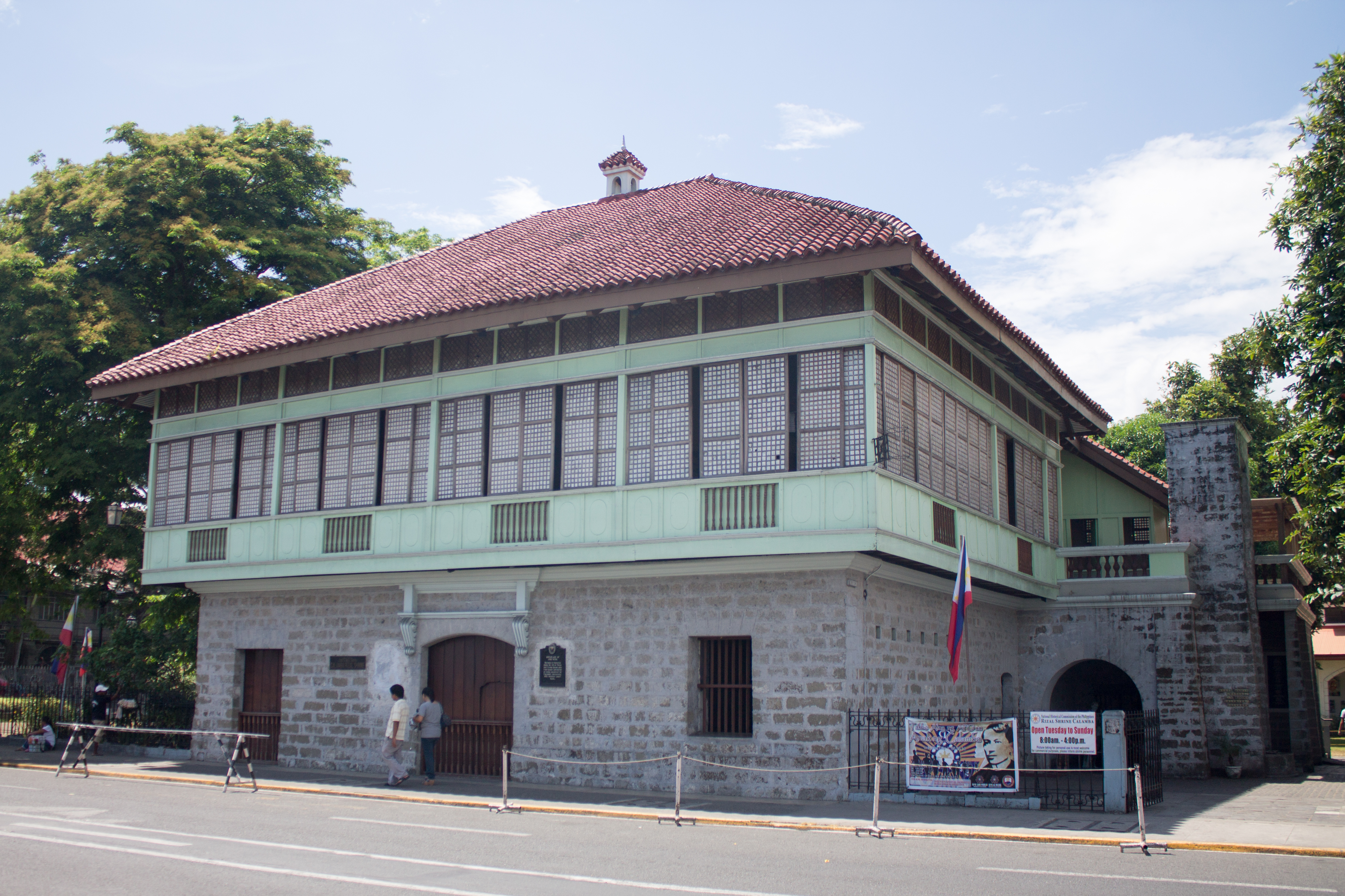 Home of National Hero Jose P. Rizal